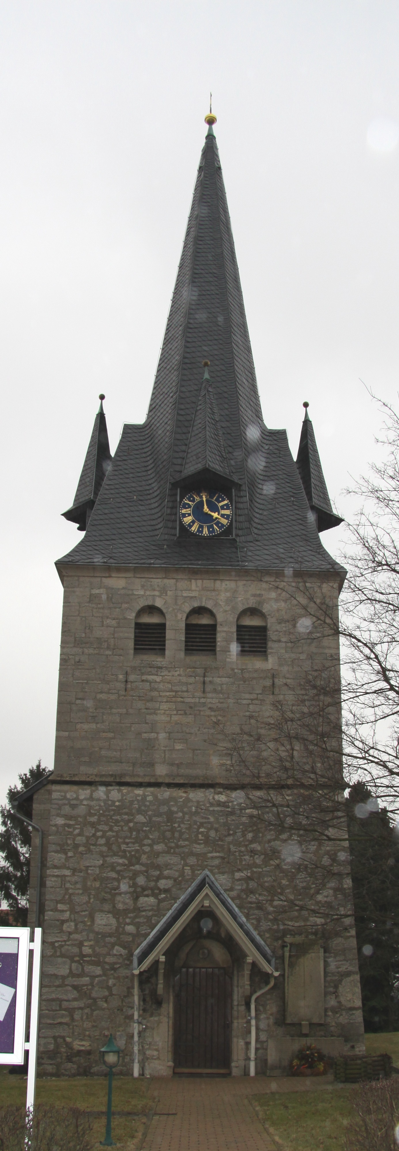 Church St.-Nicolaus in Mönchevahlberg, Lower Saxon, Germany